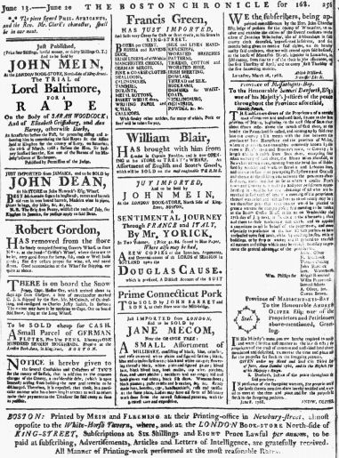 Boston Chronicle, June 1768, Boston, Massachusetts